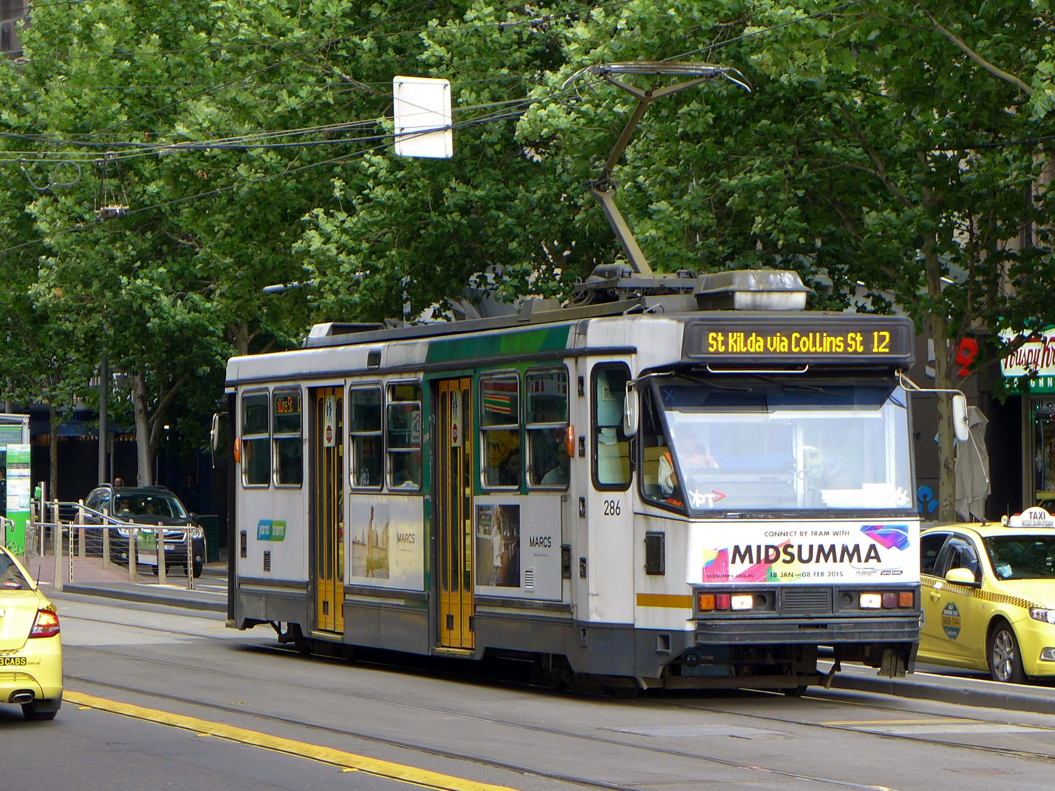 A2 class tram no 286 has just departed from the Spencer Street tram stop in Collins Street, with a route 12 service from Victoria Gardens to St Kilda (Fitzroy Street) in Melbourne, Australia.